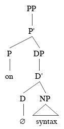 A syntax tree of a prepositional phrase small clause